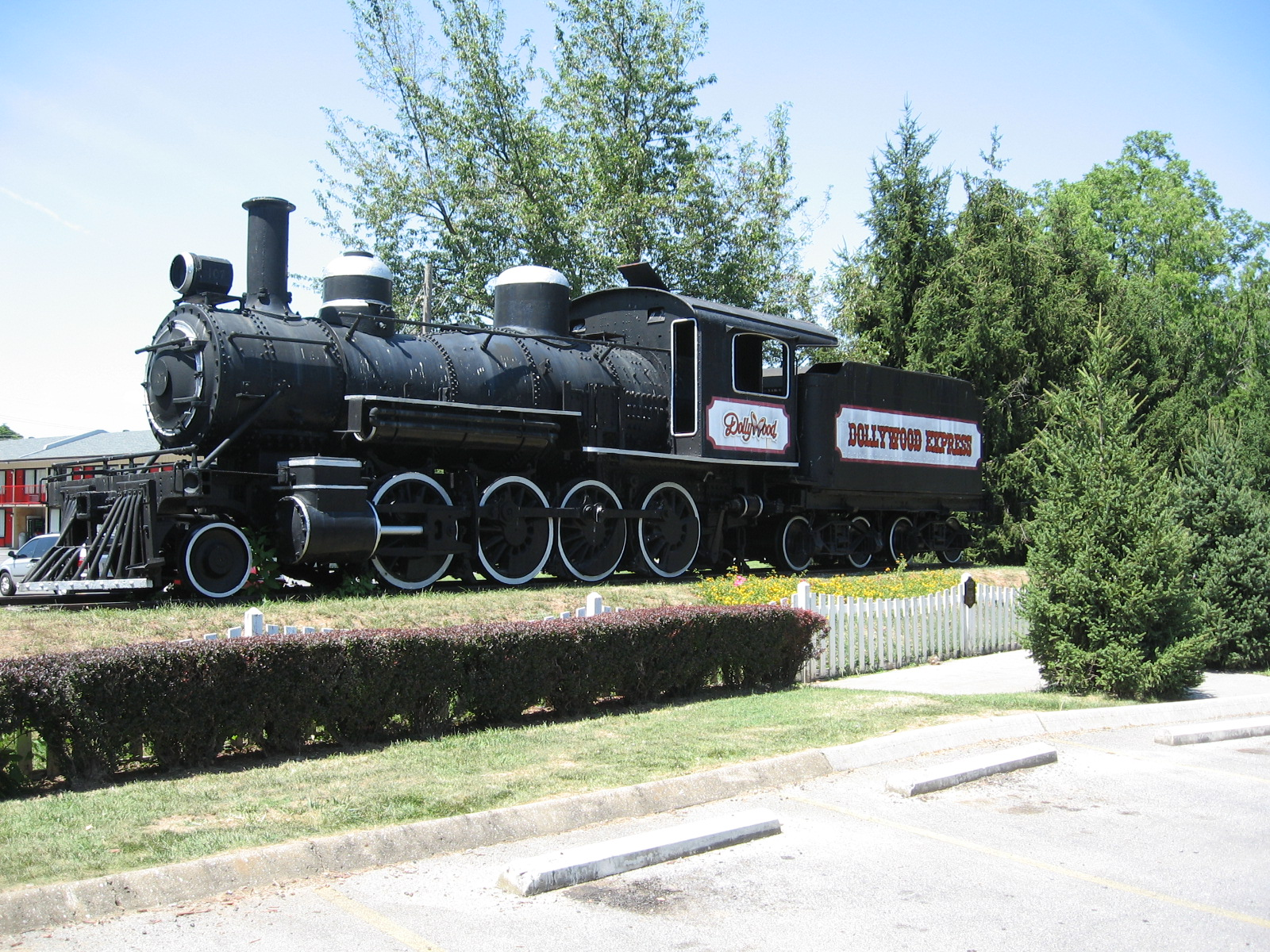 It became Smoky Mountain Railroad engine #107 and was later owned by Rebel Railroad. It is now owned by the Dollywood themepark and is on display at Hwy 441 in Pigeon Forge, TN.